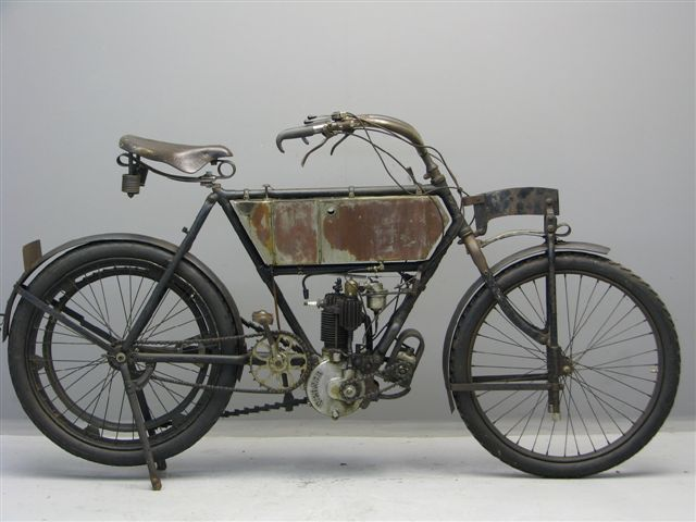 Werner 2 hp motorcycle from 1904.